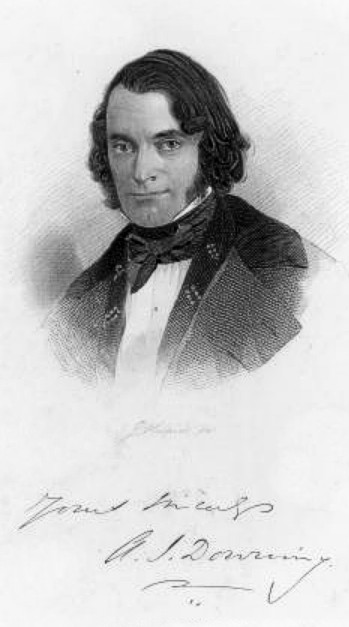 Frontispiece engraved portrait of Andrew Jackson Downing (1815-1852)from "A Treatise on the Theory and Practice of Landscape Gardening"